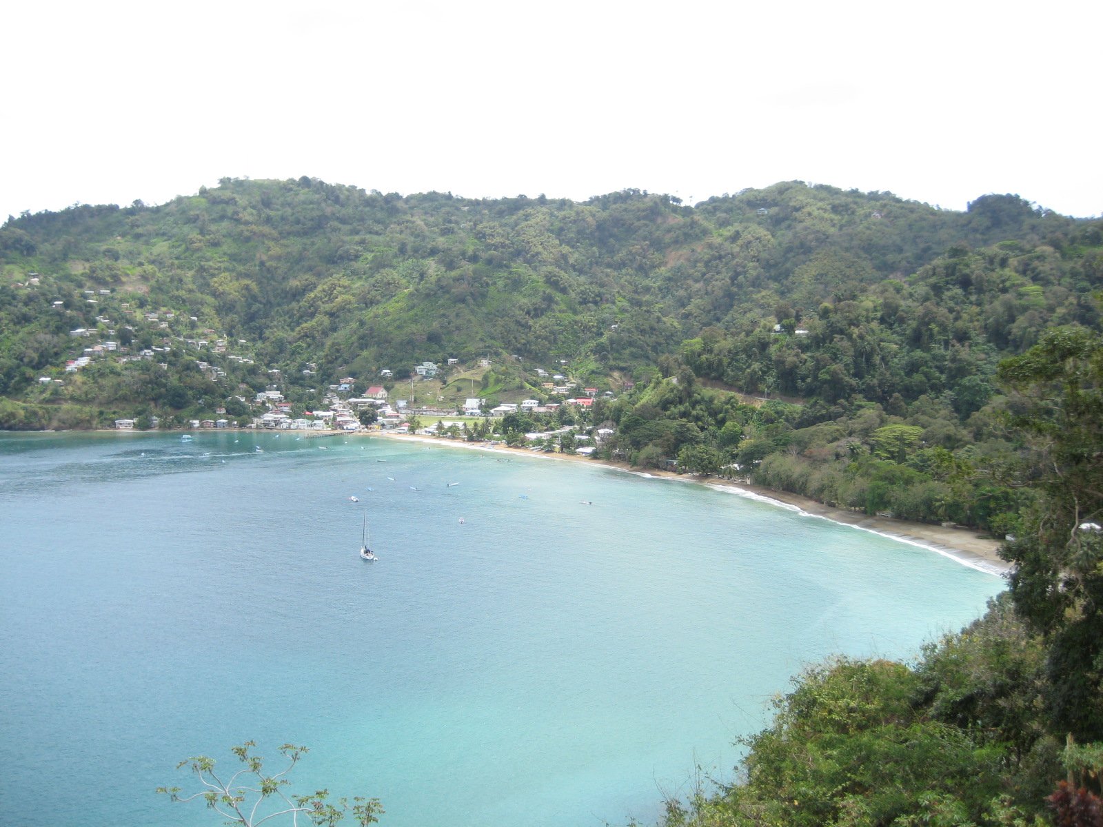 View of Charlotteville village in Tobago from Fort Campbelton